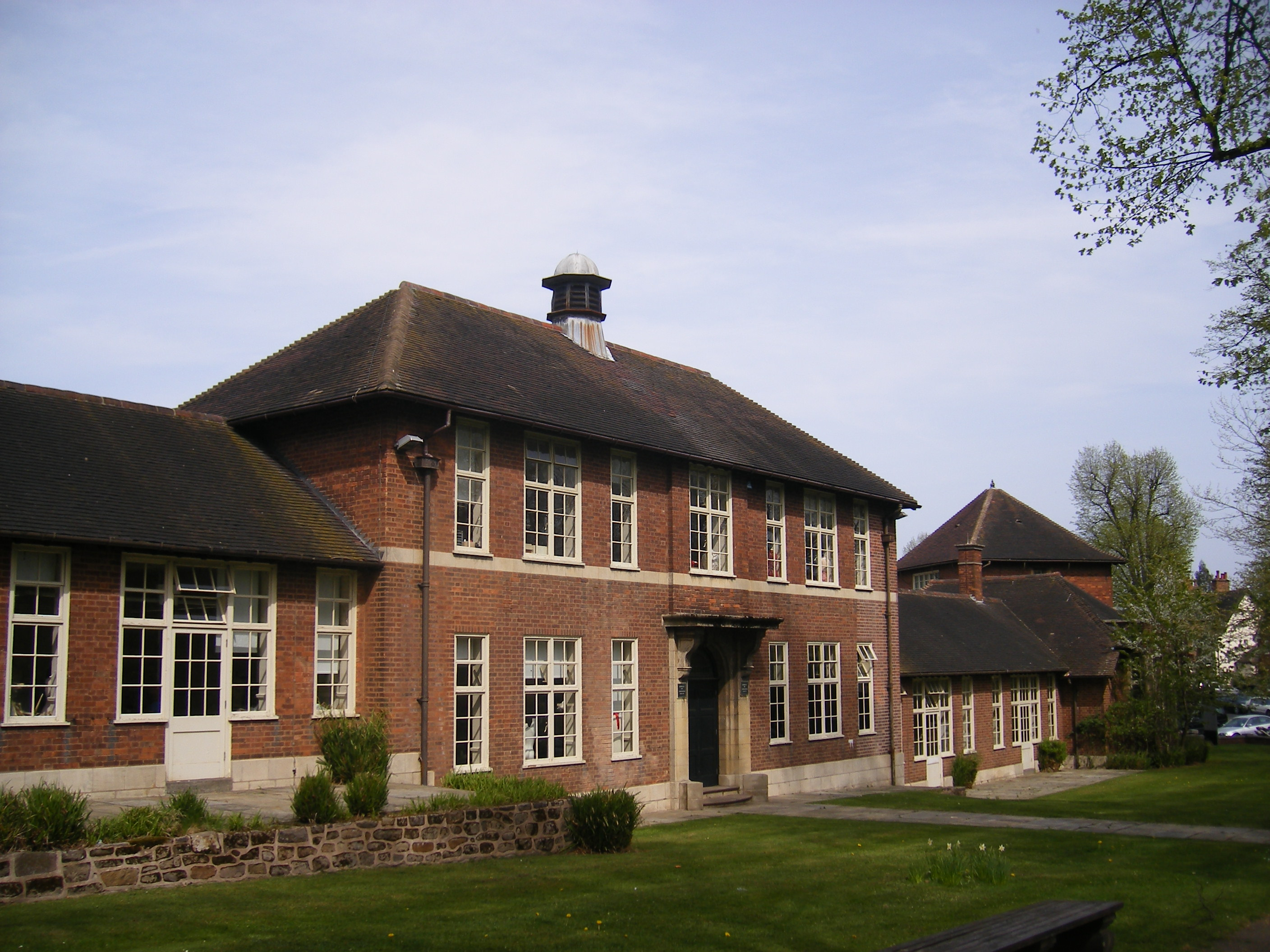 School of Art, Bournville part of the Birmingham Institute of Art and Design and Birmingham City University